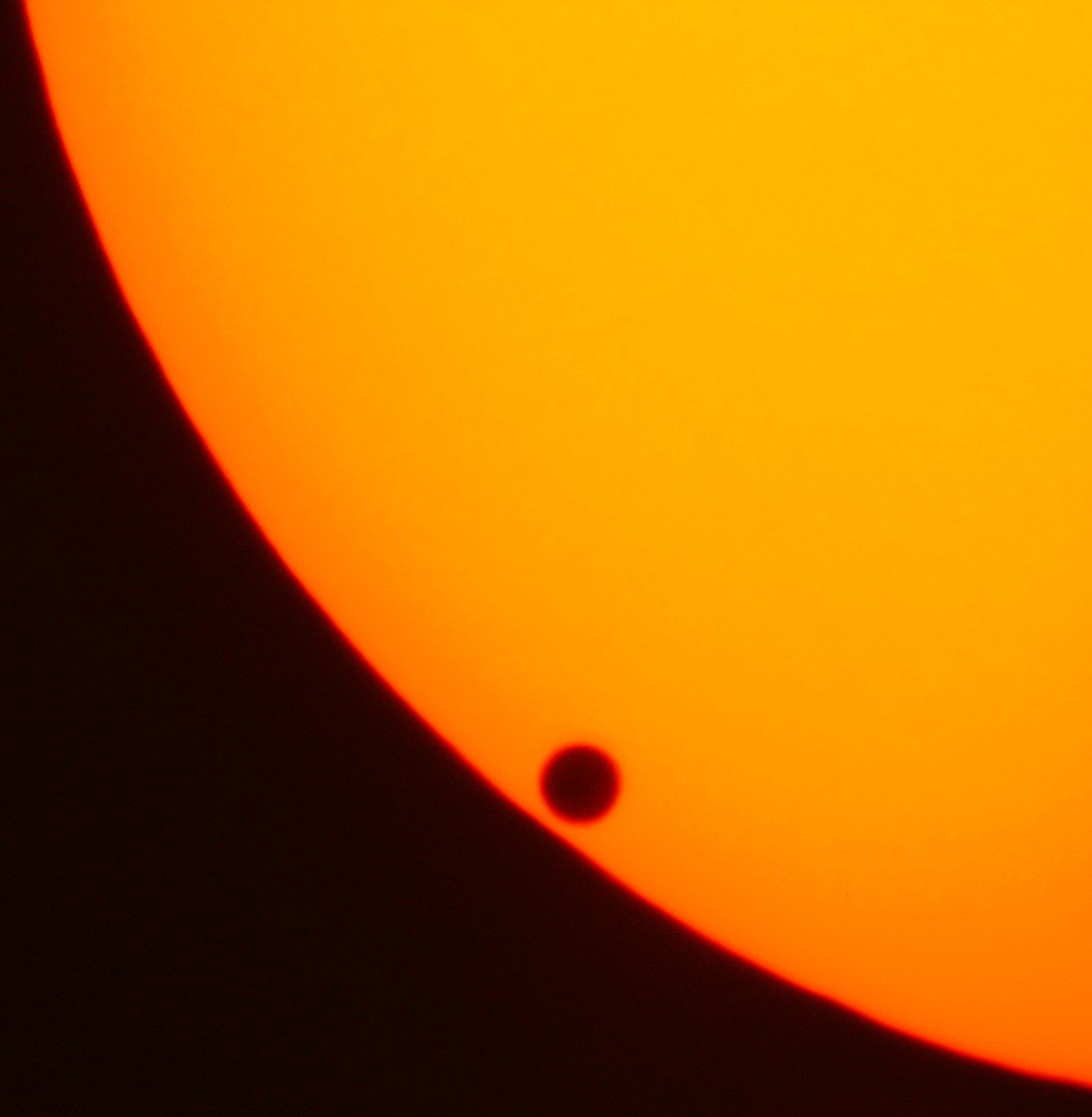 Transit of Venus - Venus completely over the sun